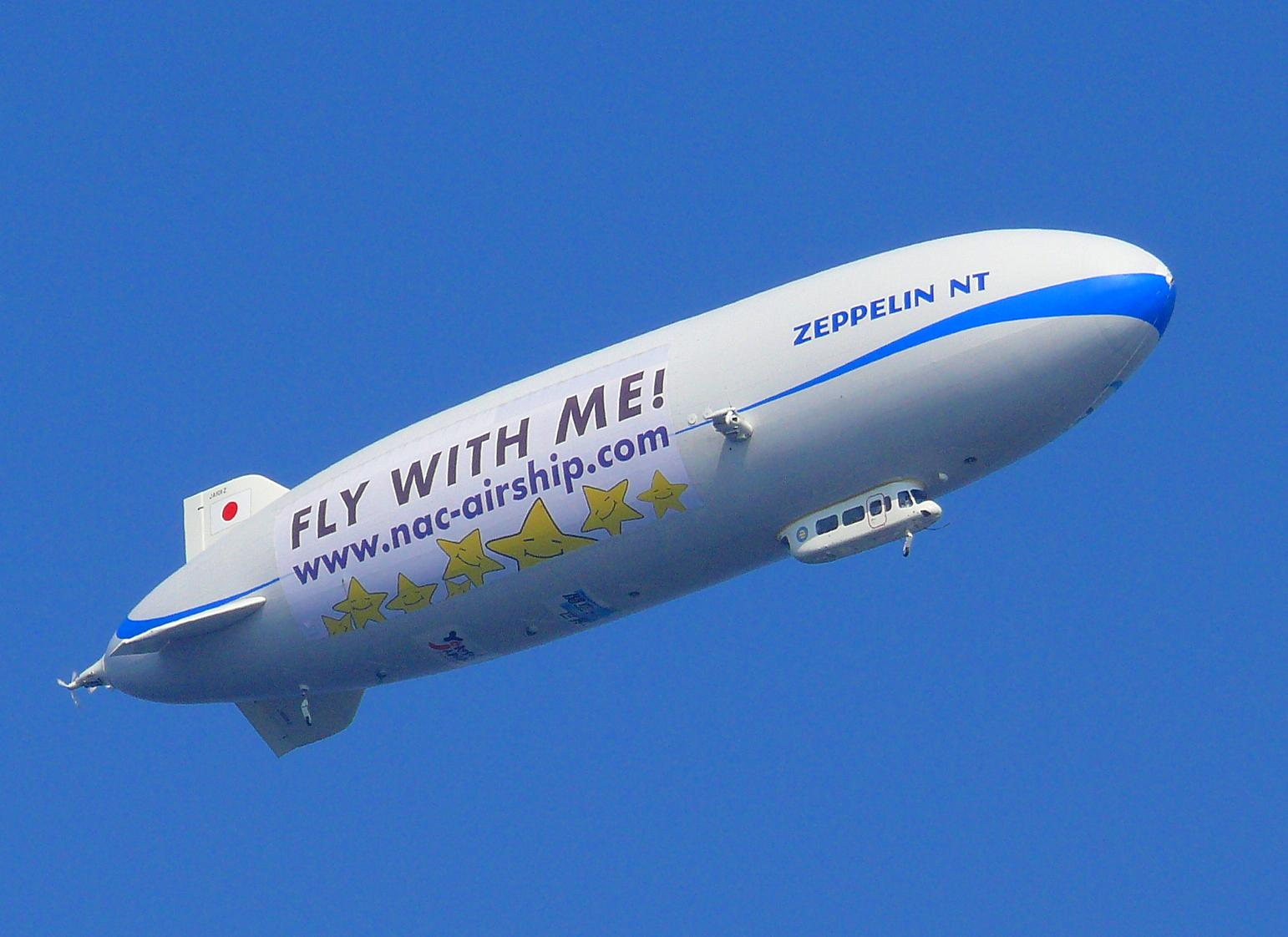 Zeppelin NT of airship that "Nippon Airship Corporation" Ltd. has..